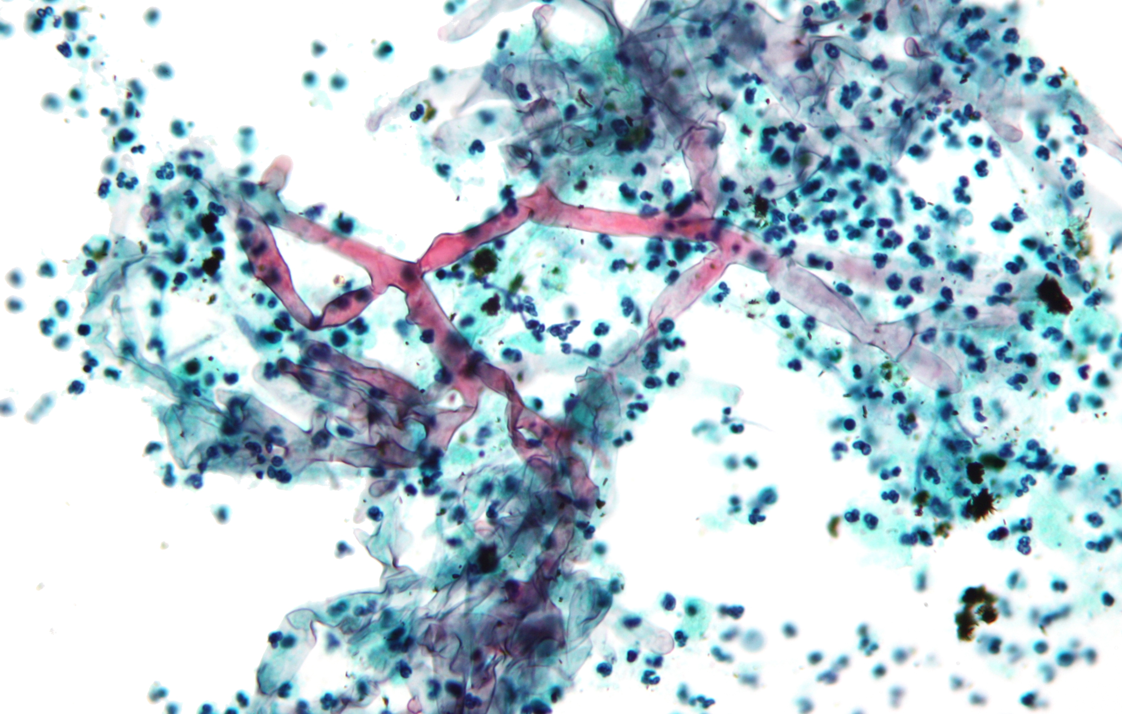 Micrograph of zygomycosis (also mucormycosis - more specific). Lung biopsy. Mucor forms hyphae with variable thickness when within tissue, unlike Aspergillus (which have a uniform thickness) and branch at 45 degrees. Zygomycosis is often found in association with diabetes mellitus and immunodeficiency/dysfunction. See also Image:Pulmonary aspergillosis.jpg